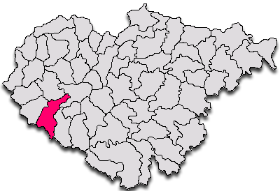 Map Salaj County Romania